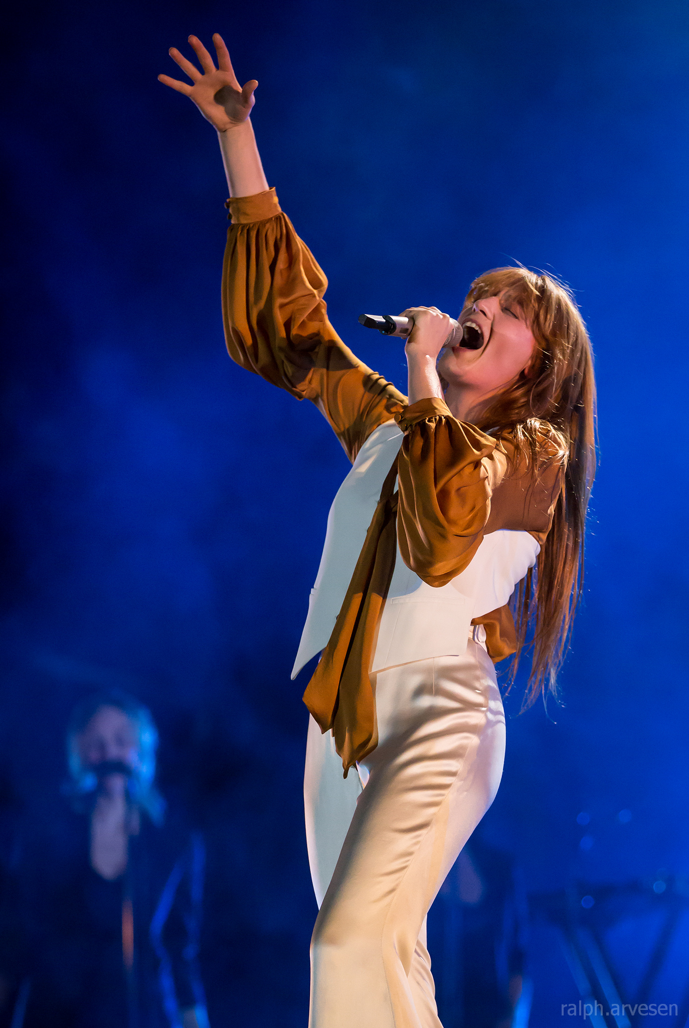 Florence and the Machine. Austin City Limits Music Festival overview from Friday, October 9 through Sunday, October 11, 2015.